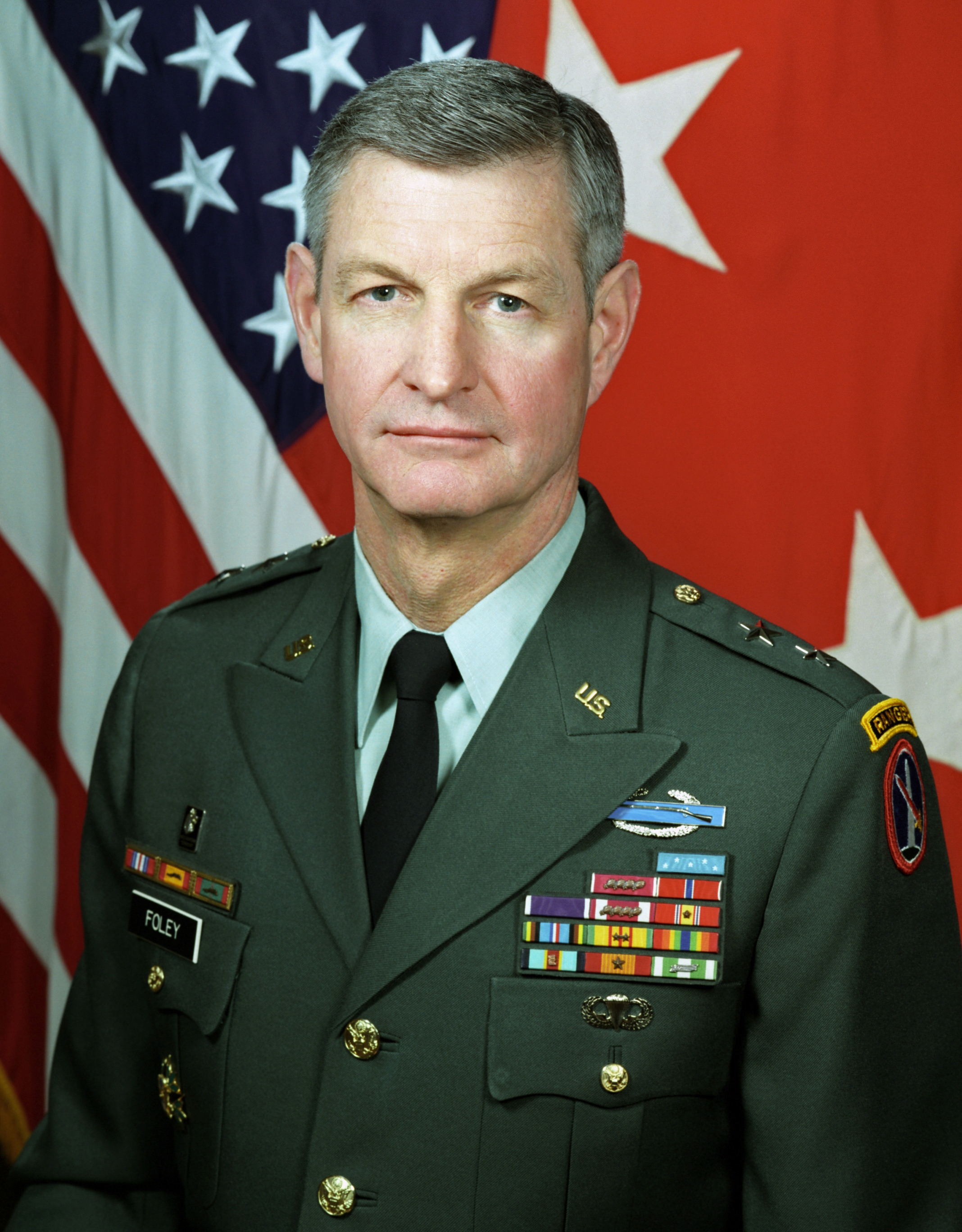 Portrait of United States Army Major General Robert F. Foley, taken at the Pentagon